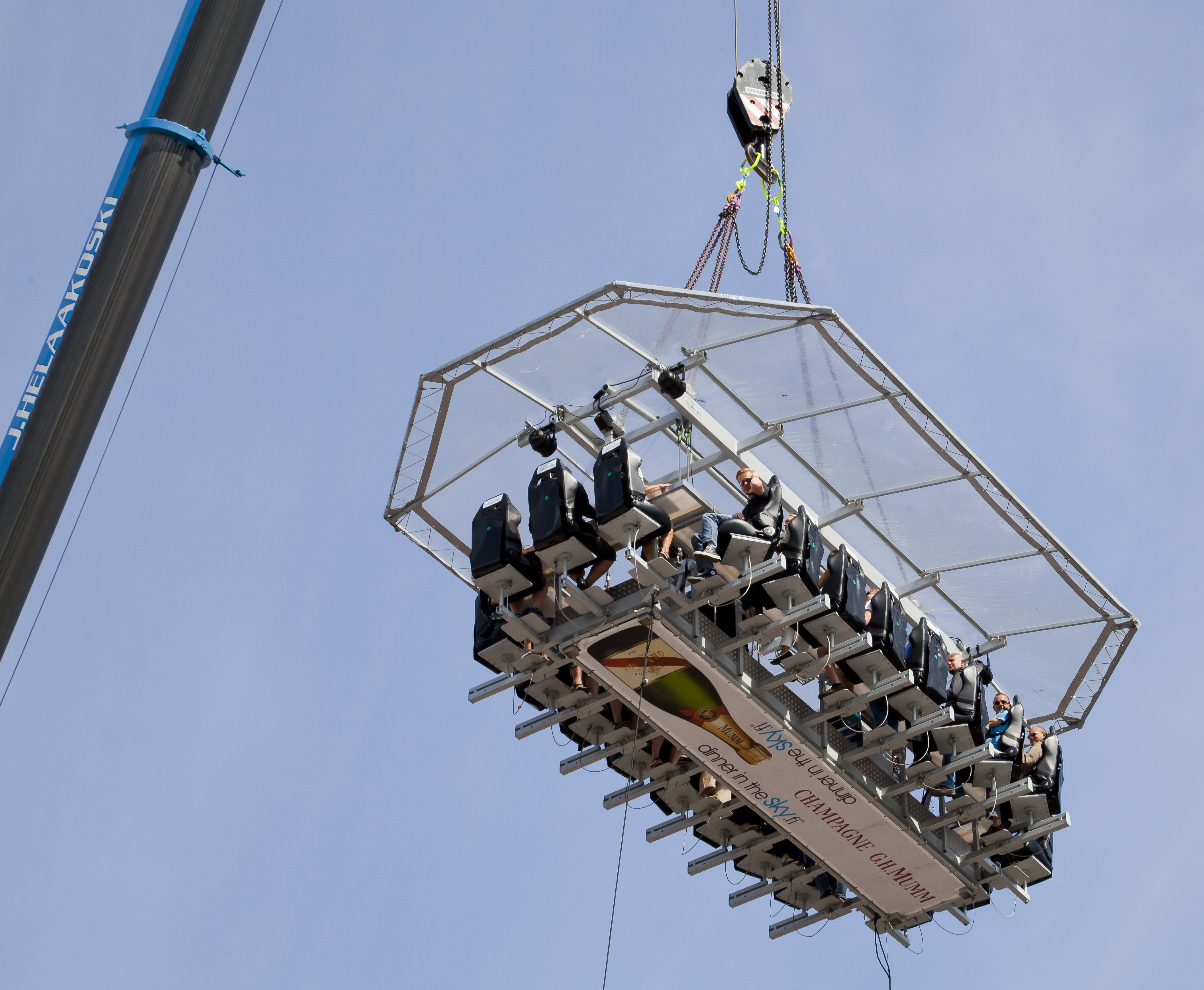 Flying restaurant, Helsinki, Finland